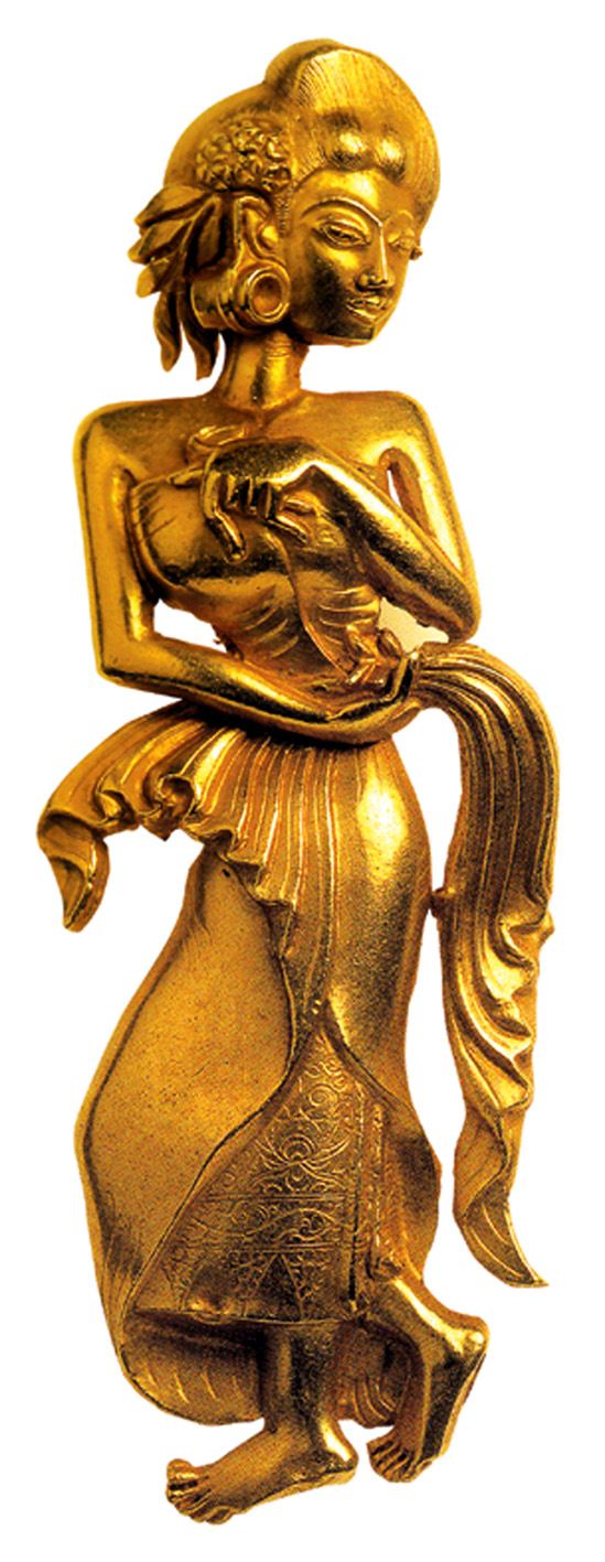 The 9.2 cm high Golden Celestial Apsara in Majapahit style. The nymphs or apsara are celestial maidens live in heaven of god Indra. They are divinely beautiful and known for their special assingments by Indra to seduce ascetics who by they severe practices may become more powerful than the gods. This statue is private collection. Arts of Asia p.93 December 2000